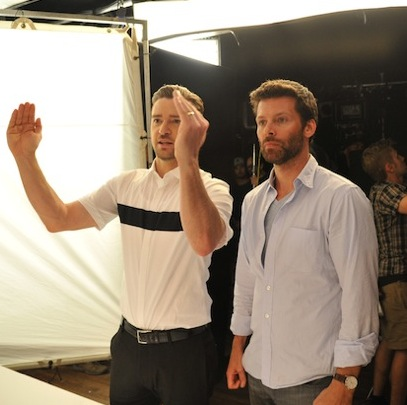 Director Mark Klasfeld working with Justin Timberlake